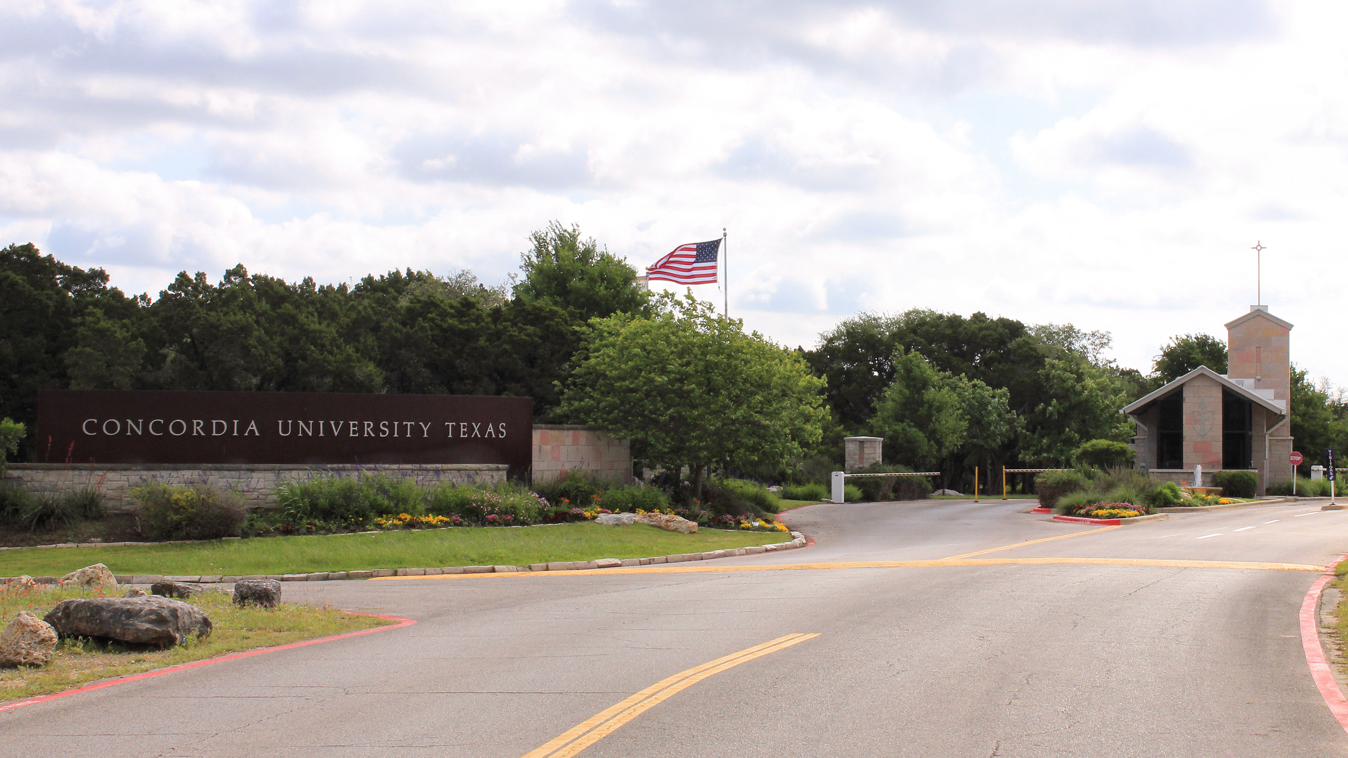 Entrance sign and guard station at Concordia University, Austin, Texas, United States